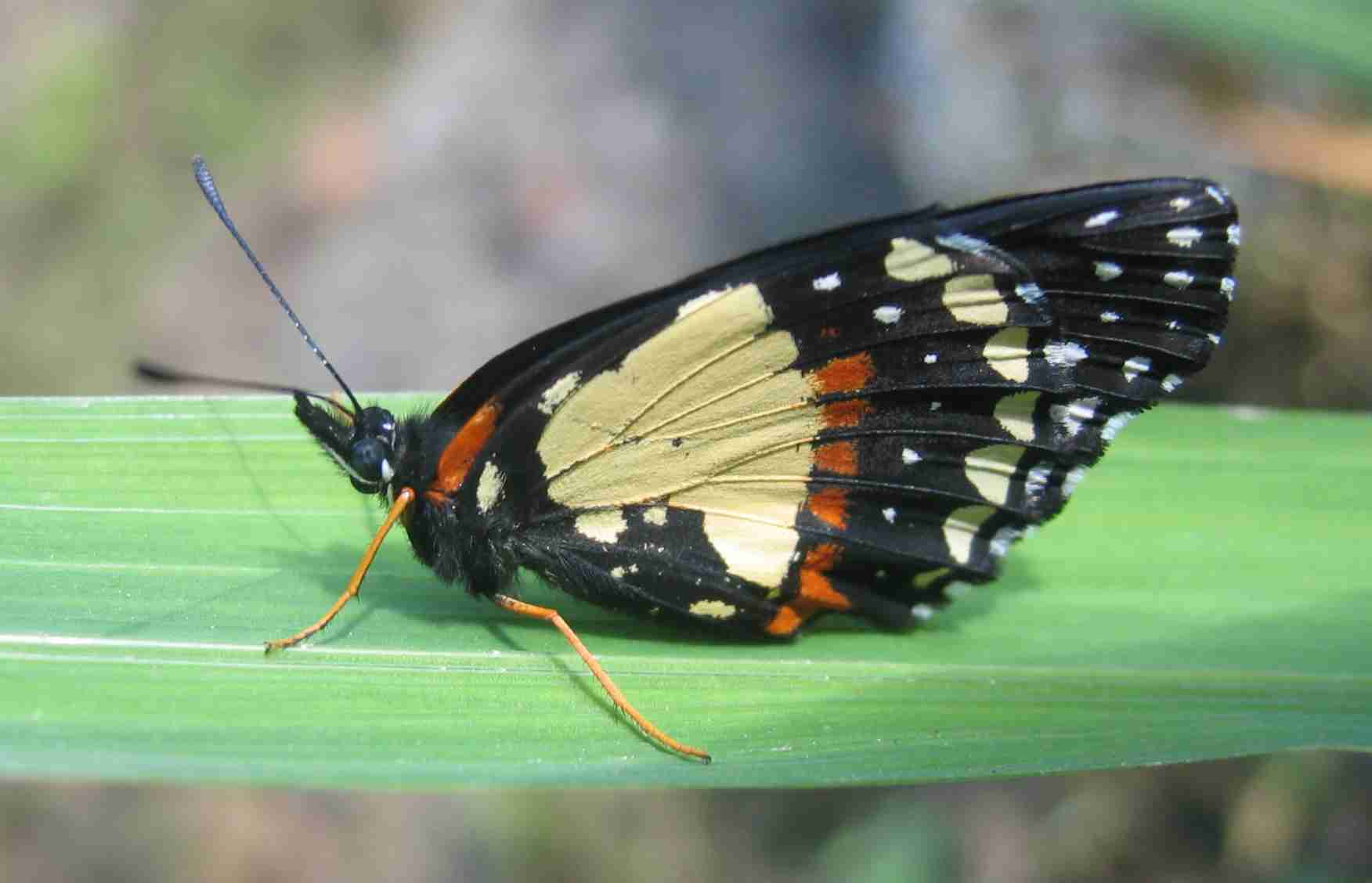 A Rosita Patch butterfly (Chlosyne rosita) near Orosí, Costa Rica, 3 February 2004. It was friendly enough to sit still so I could photograph it from the side and then opened it's wings so I could photograph it from the top.